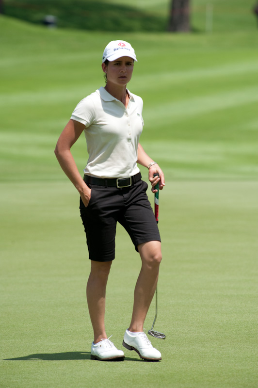 Lorena Ochoa during the HSBC Womens Championship